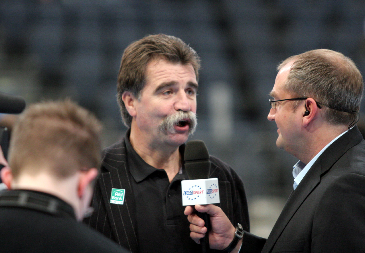 Heiner Brand, coach of Germanys national handball team, in the Kölnarena prior the champions league game VfL Gummersbach vers. BM Ciudad Real on February 20th, 2008